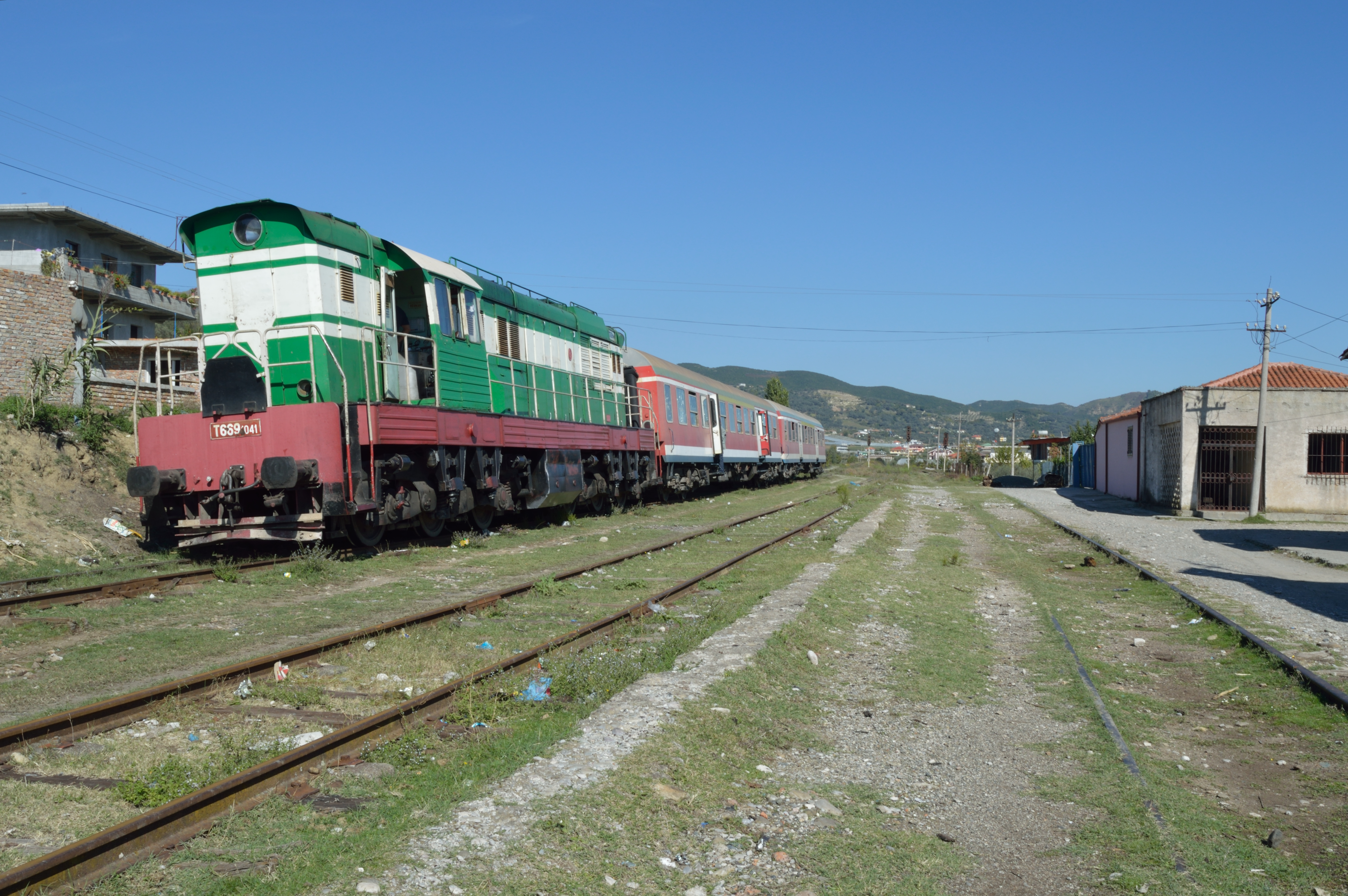 Balkans Rail Trip, Autumn 2013 - Day Twelve Typical run down station on the Albanian Railways network. Timings on the line to Librazhd were extremely generous meaning some extended waits at intermediate stations. I took advantage of this one at Peqin on 4 October 2013. T669.1041 (again) on 11:55 Librazhd to Vorë.